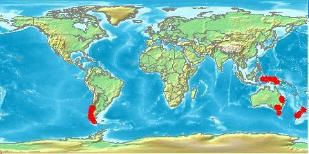 Nothofagus areal